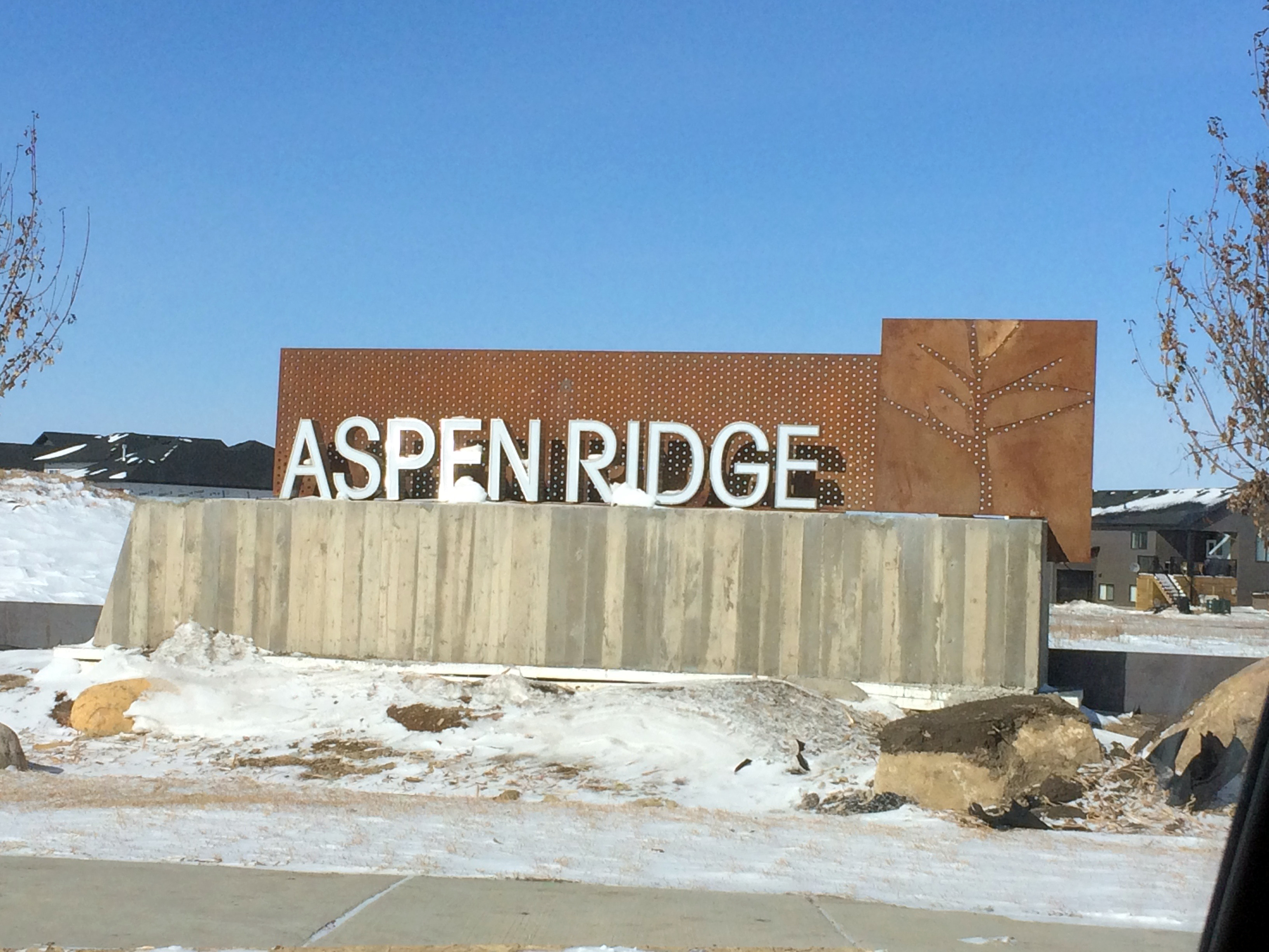 Entrance sign for the Aspen Ridge neighbourhood on the east side of Saskatoon, Saskatchewan, Canada.